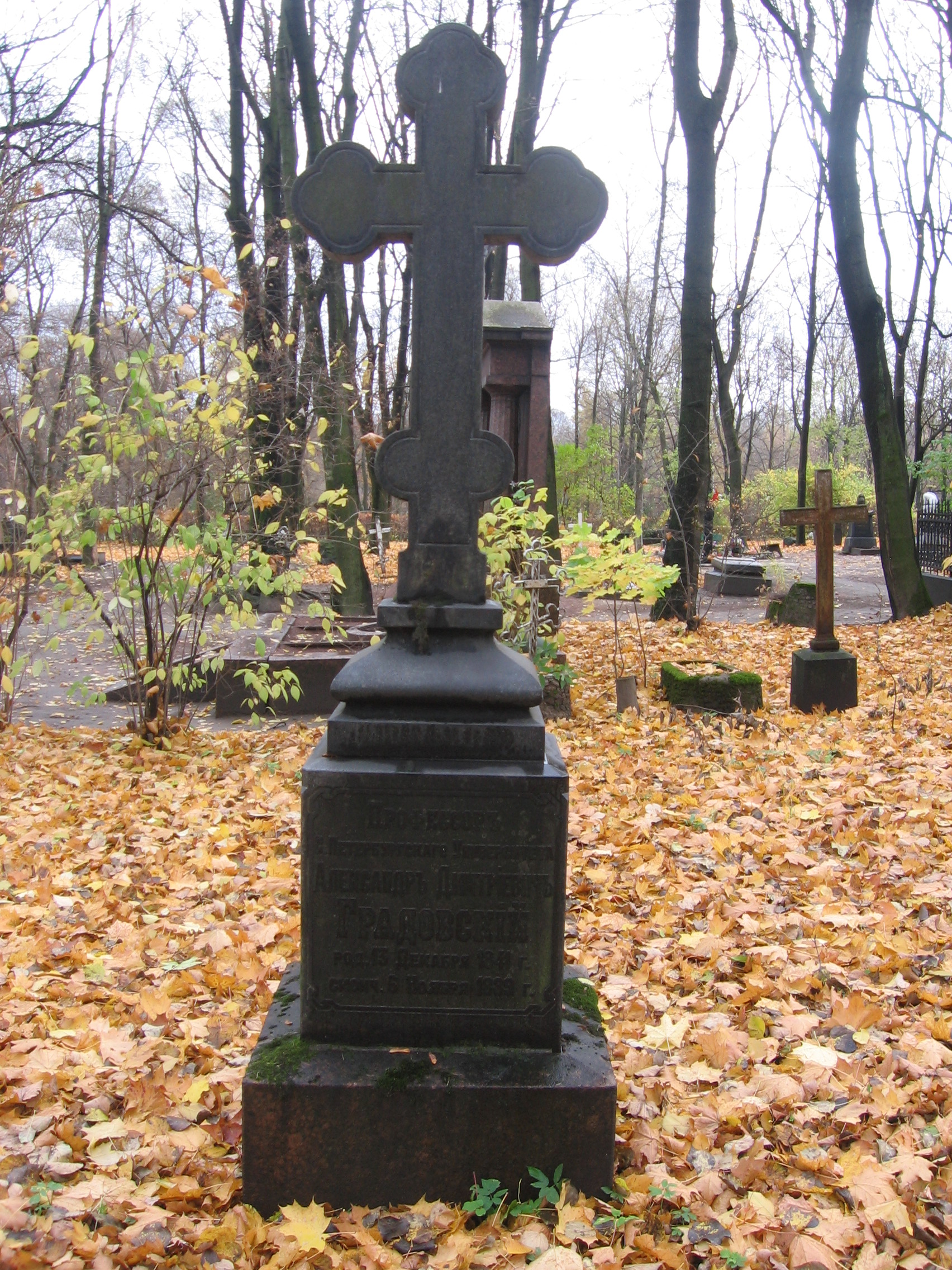 Grave of Alexander Gradovsky